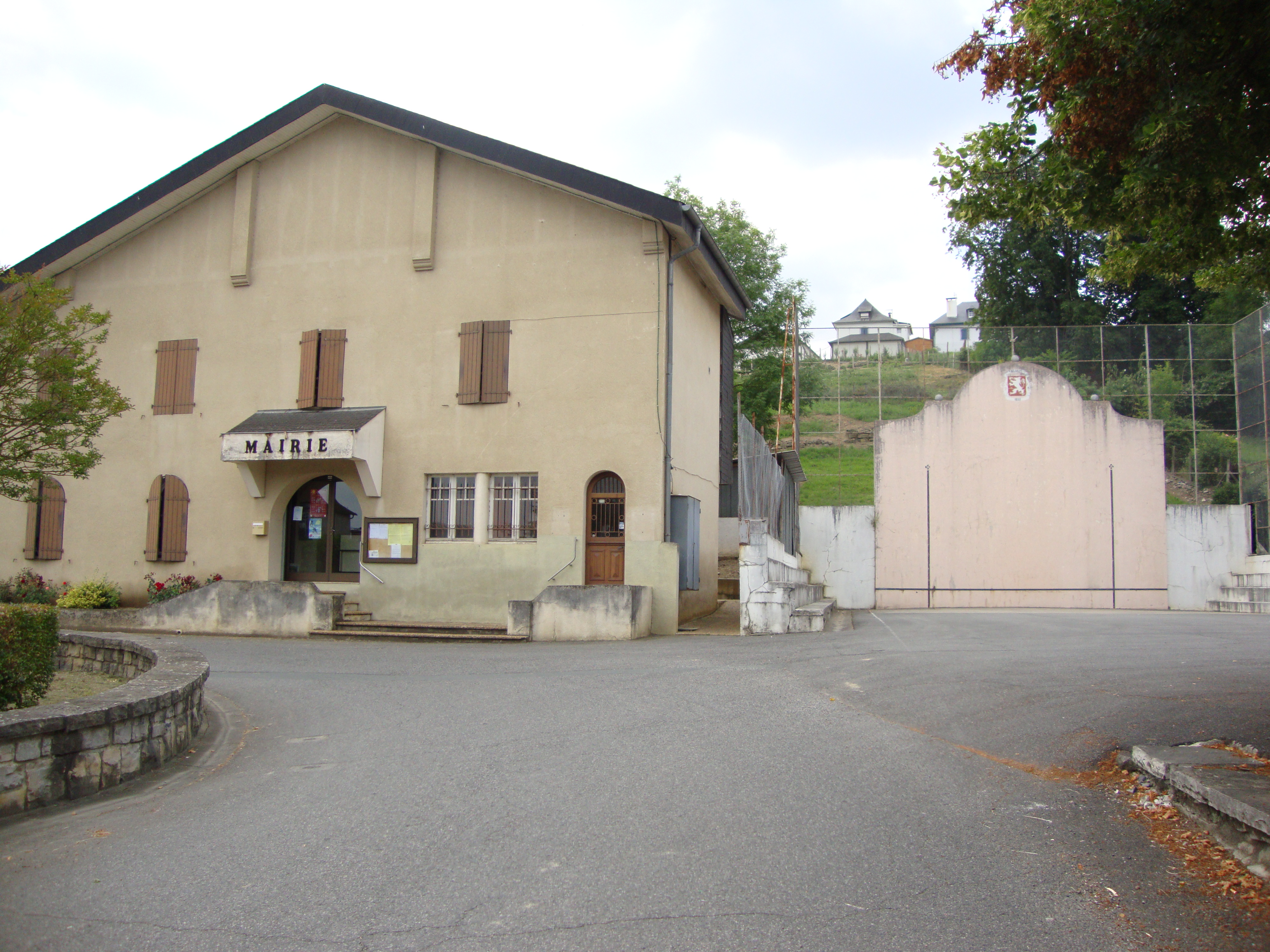 Viodos (Viodos-Abense-de-Bas, Pyr-Atl, Fr) town hall and pelota court